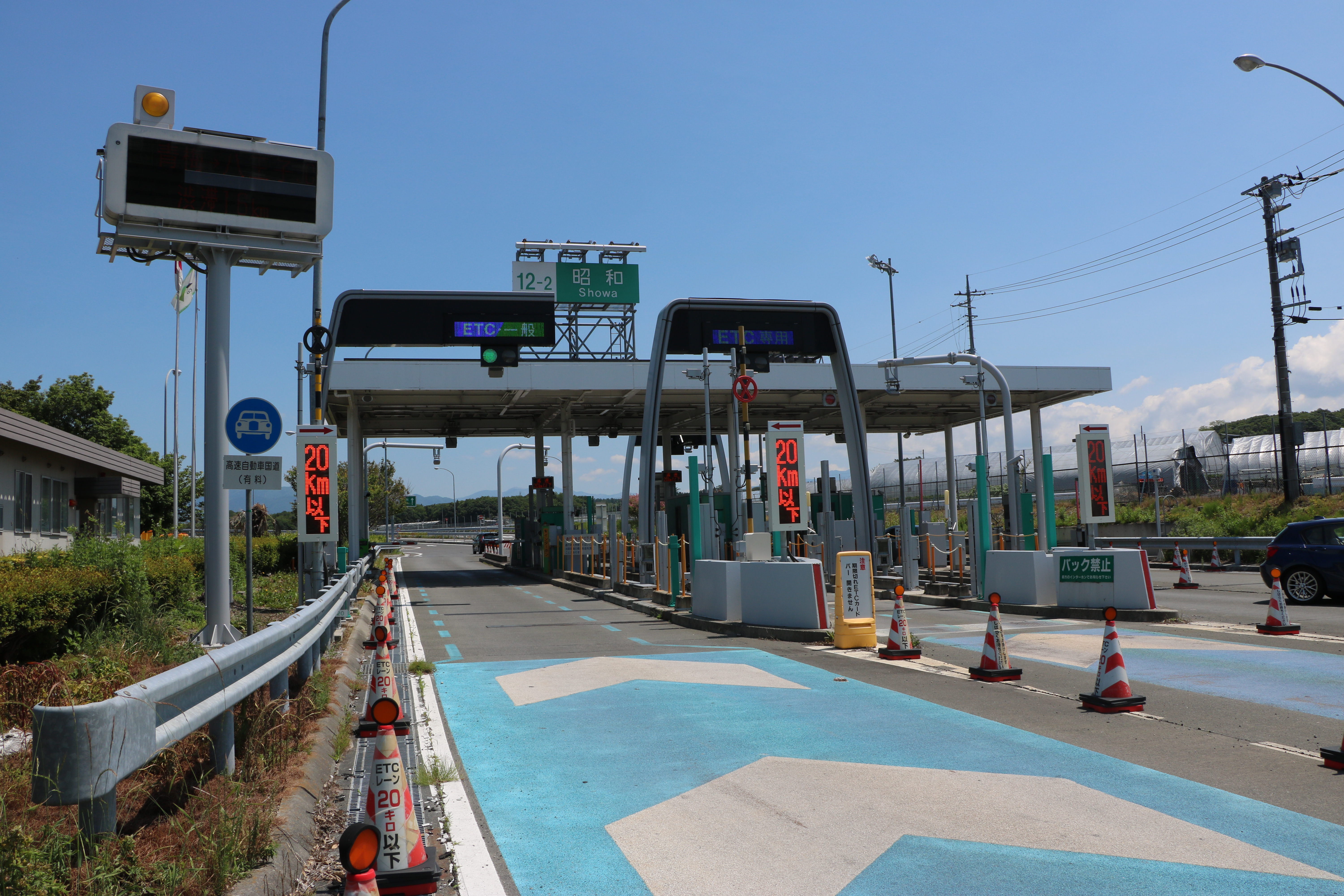 Kan-etsu Expressway Showa Interchange. Entrance